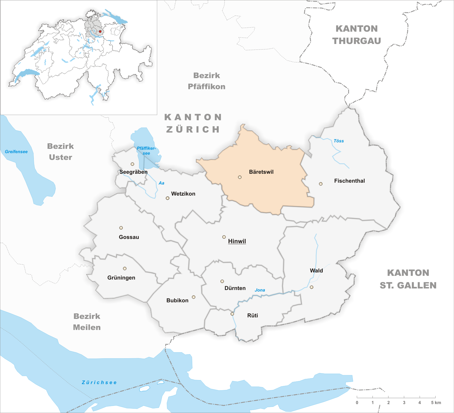 Municipality Bäretswil